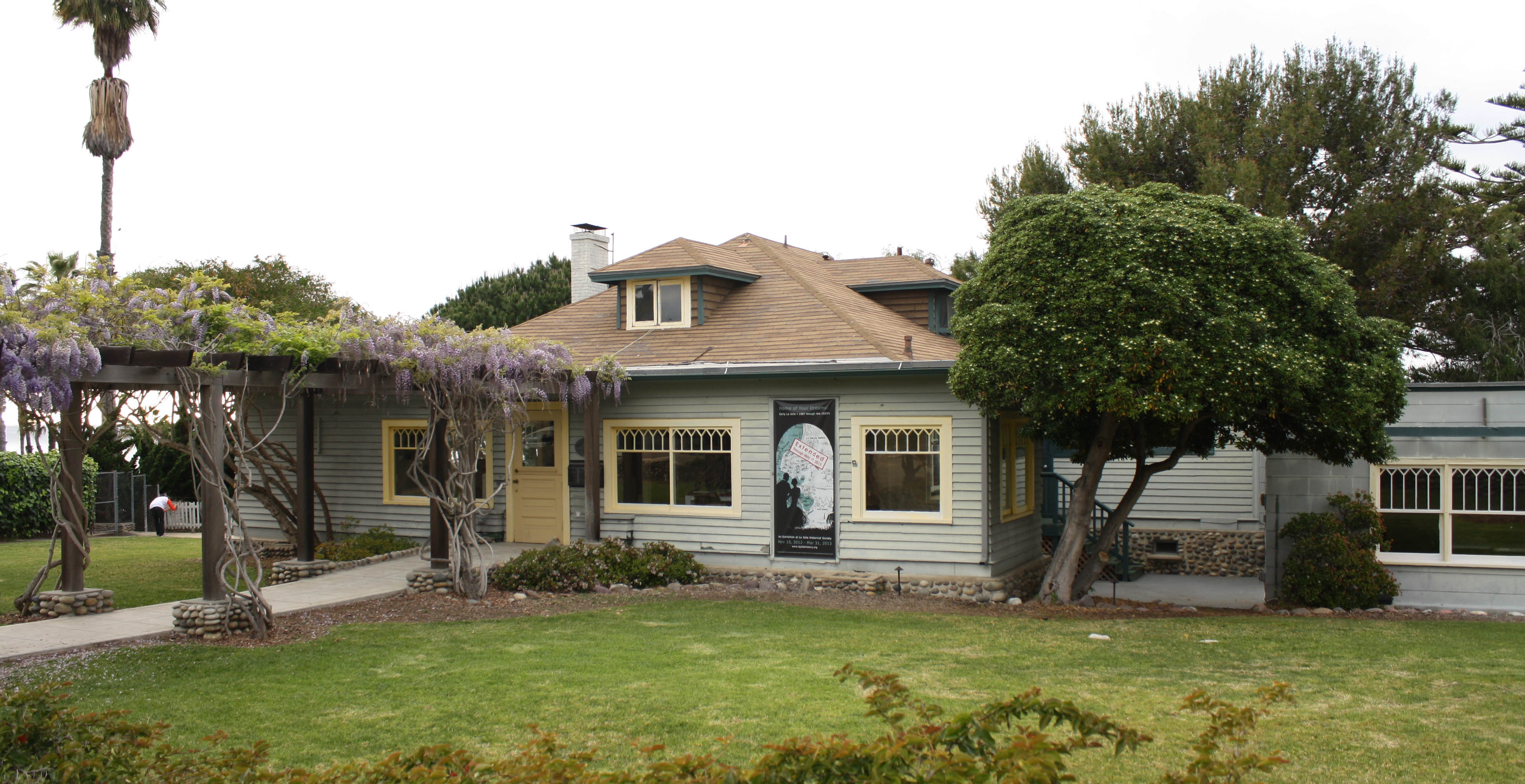 Wisteria Cottage, La Jolla, San Diego, California